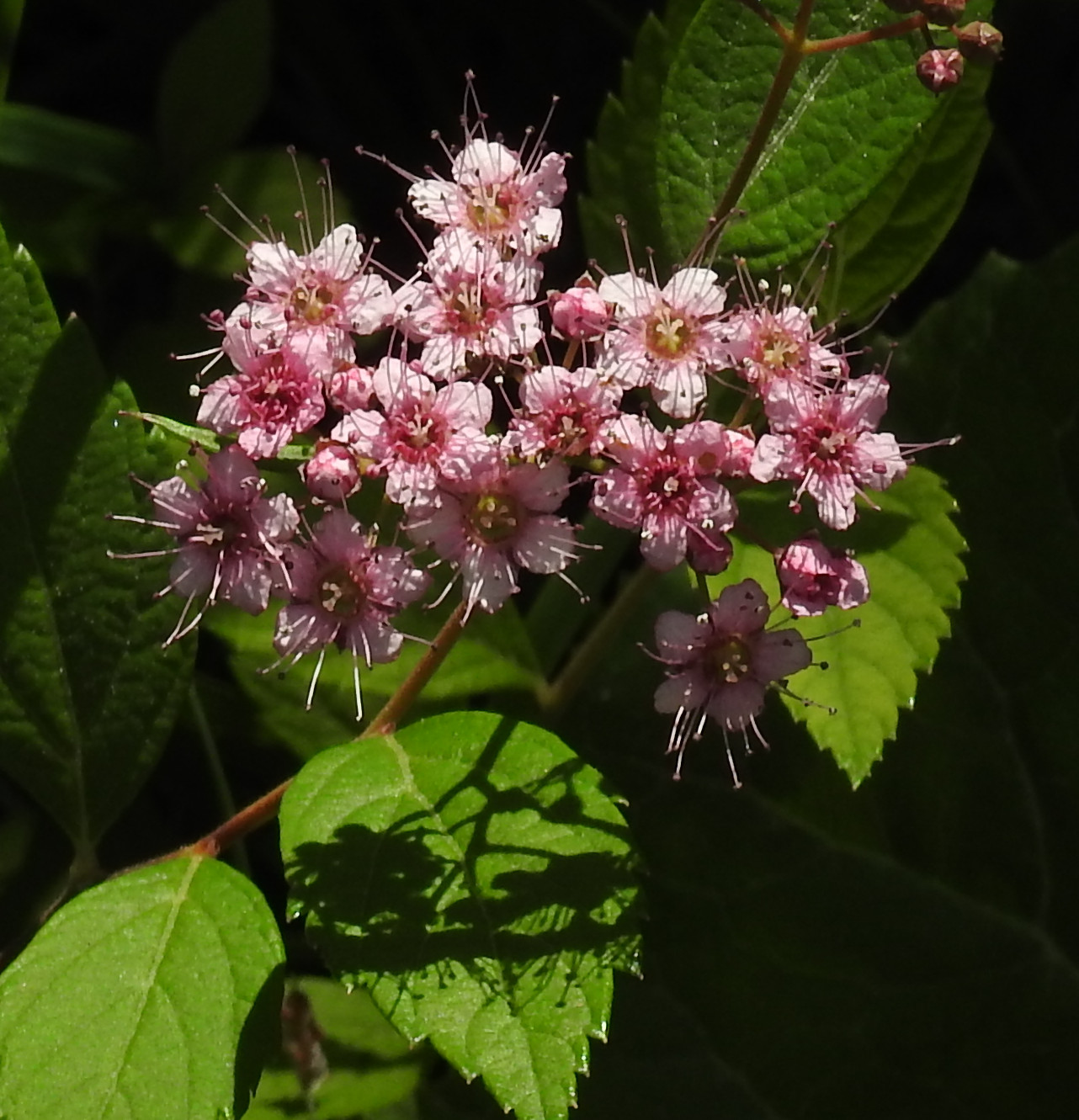 Japanese meadowsweet (Spiraea japonica), between Radniger Alm and Radnig, Carinthia, Austria